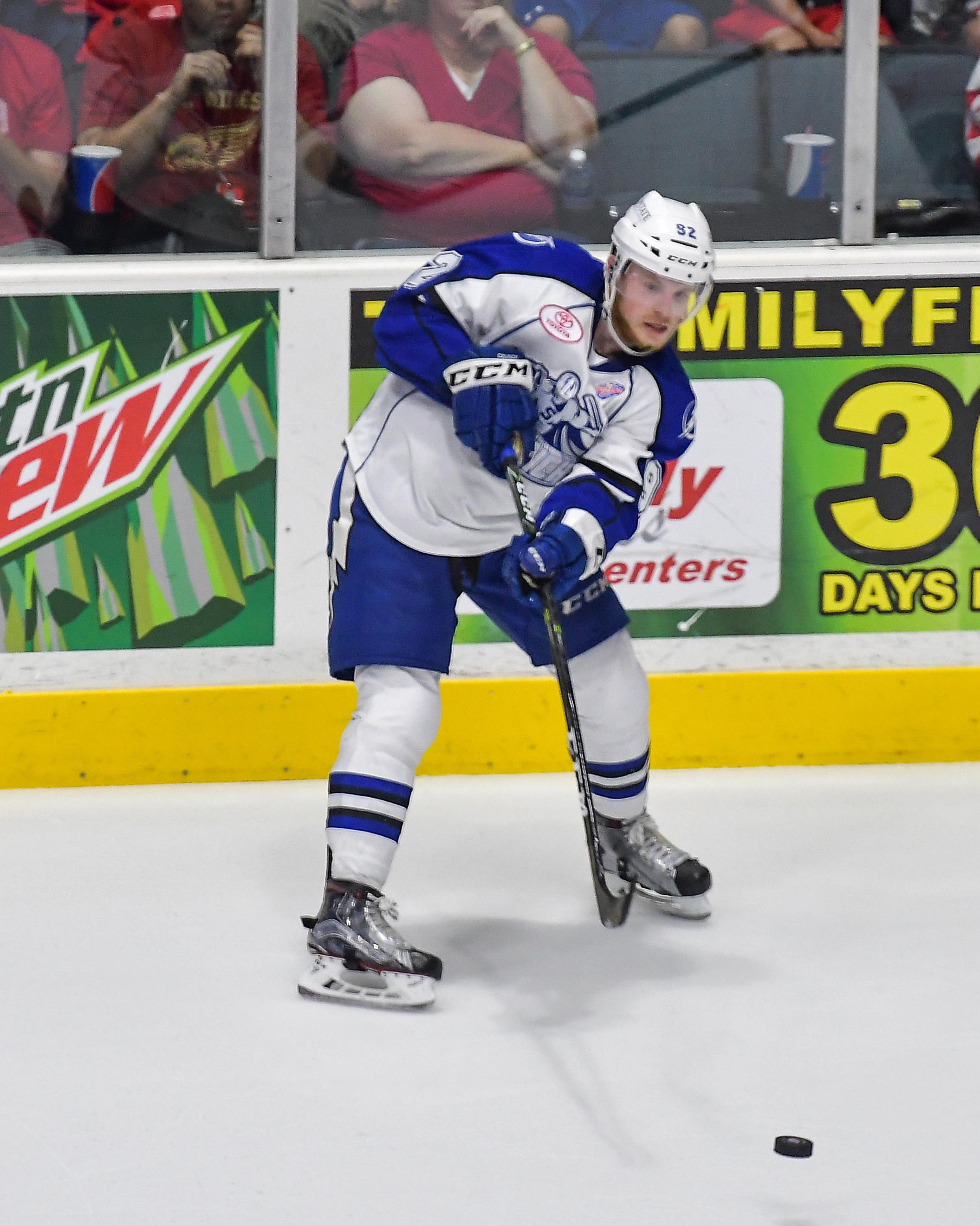 Syracuse Crunch Joel Vermin (92) passes the puck against the Grand Rapids Griffins in American Hockey League (AHL) Calder Cup Playoff action at the Van Andel Arena in Grand Rapids, Michigan on Tuesday, June 13, 2017. Grand Rapids won 4-3.